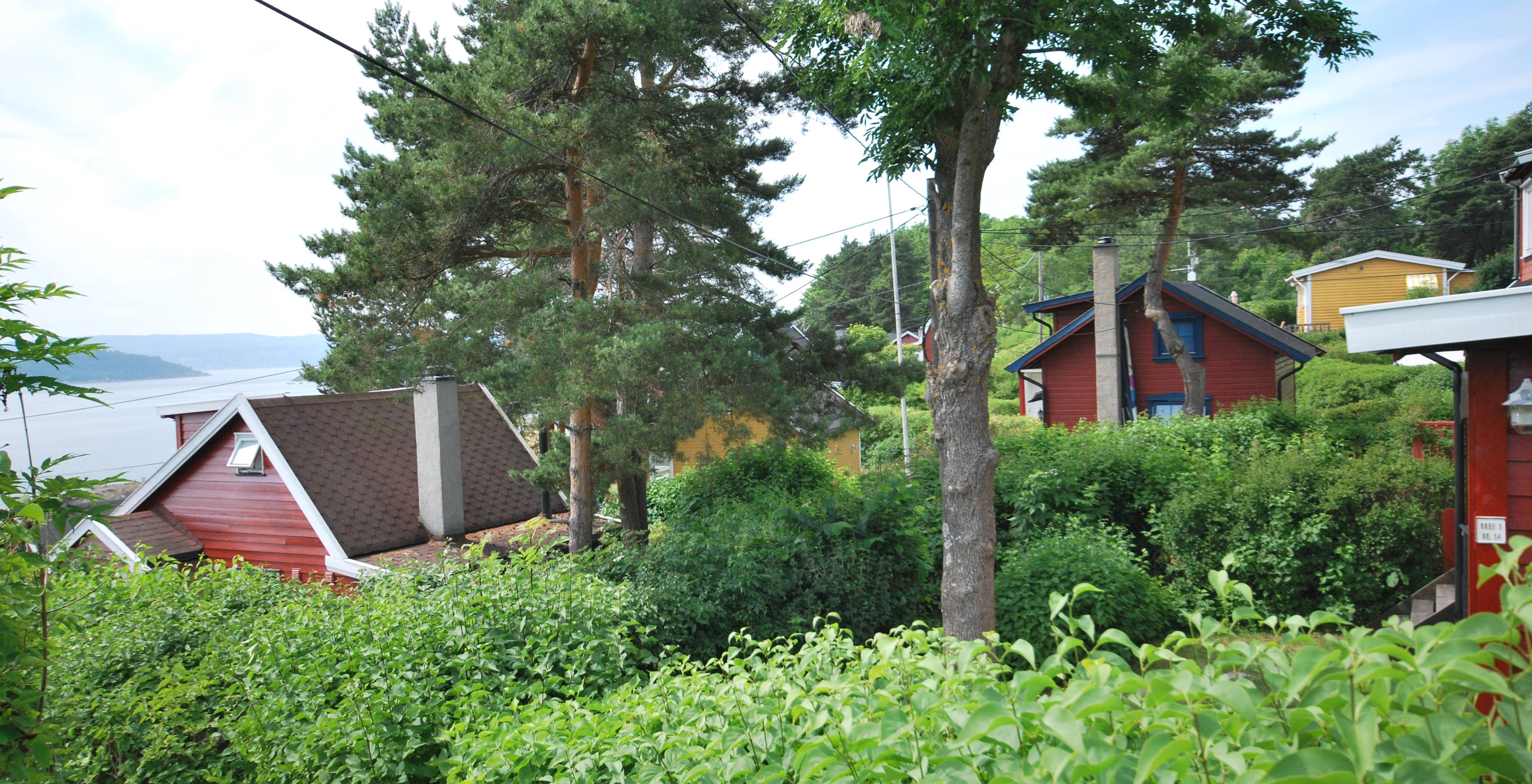 Cottages on Bleikøya, Oslo